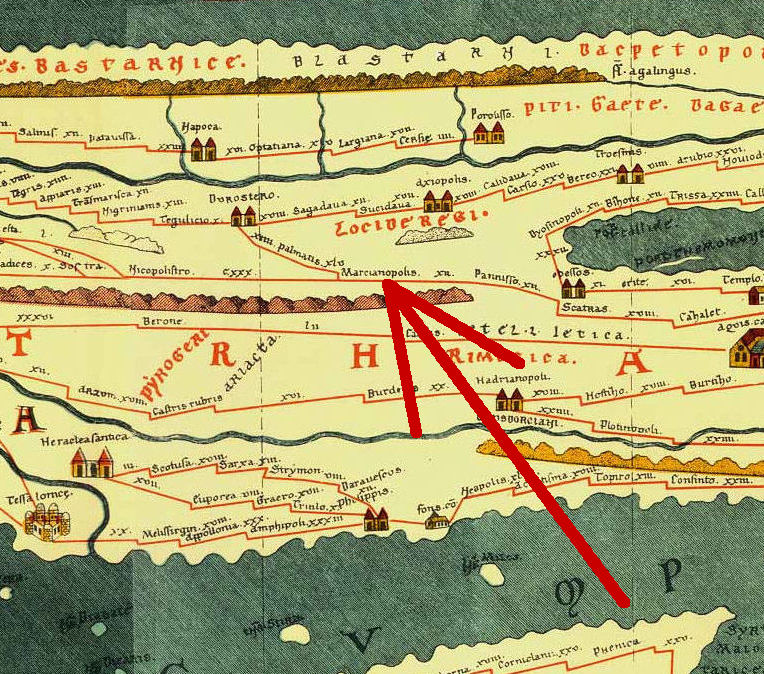 Cutout from Tabula Peutingeriana, 1-4th century CE. Facsimile edition by Conradi Millieri, 1887/1888; the red arrow shows Tabula Peutingeriana places in modern Bulgaria; on the map: Marcianopolis; in modern Bulgaria: city Devnya